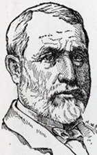 Edgar Weeks, US Representative from Michigan